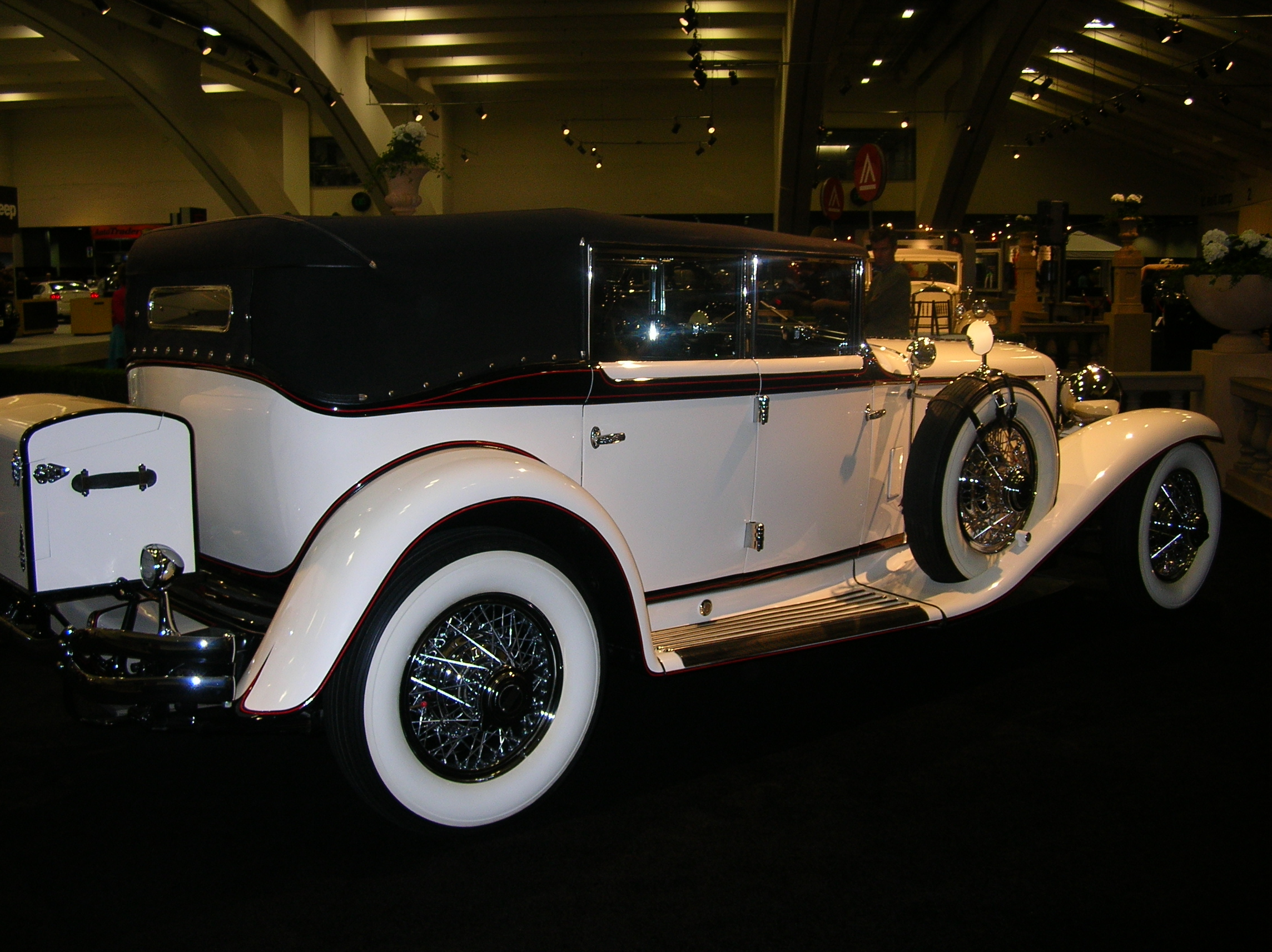 A 1929 Cord L-29 at the 2009 San Francisco International Auto Show.